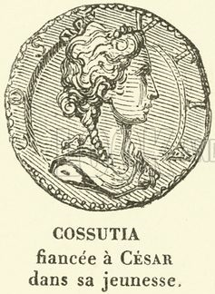 Cossutia